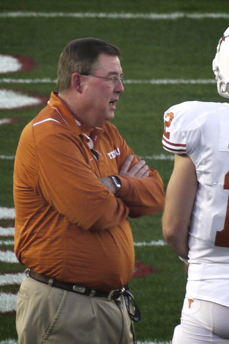 Greg Davis talking to Colt McCoy before the 2010 BCS National Championship Game.